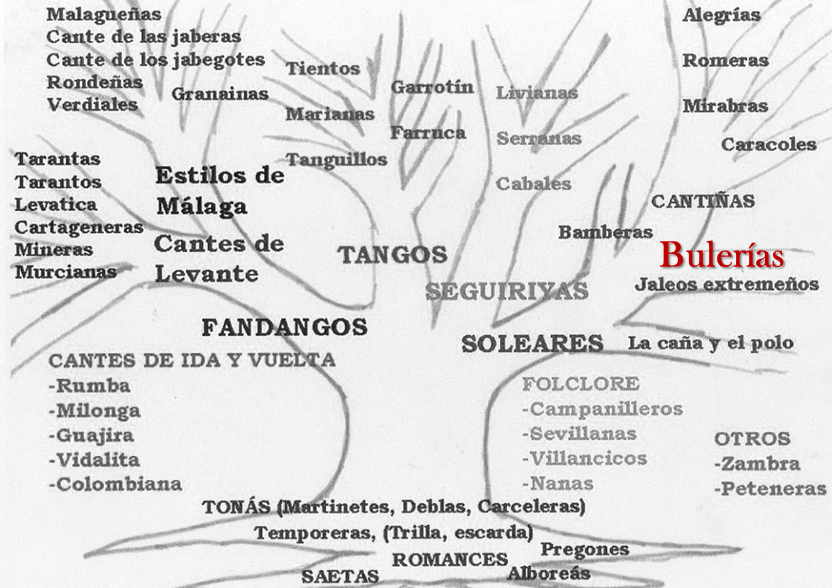 Bulerías in Flamenco Palos Tree (based on a tree published at